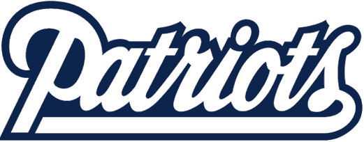 New England Patriots wordmark since 2000.